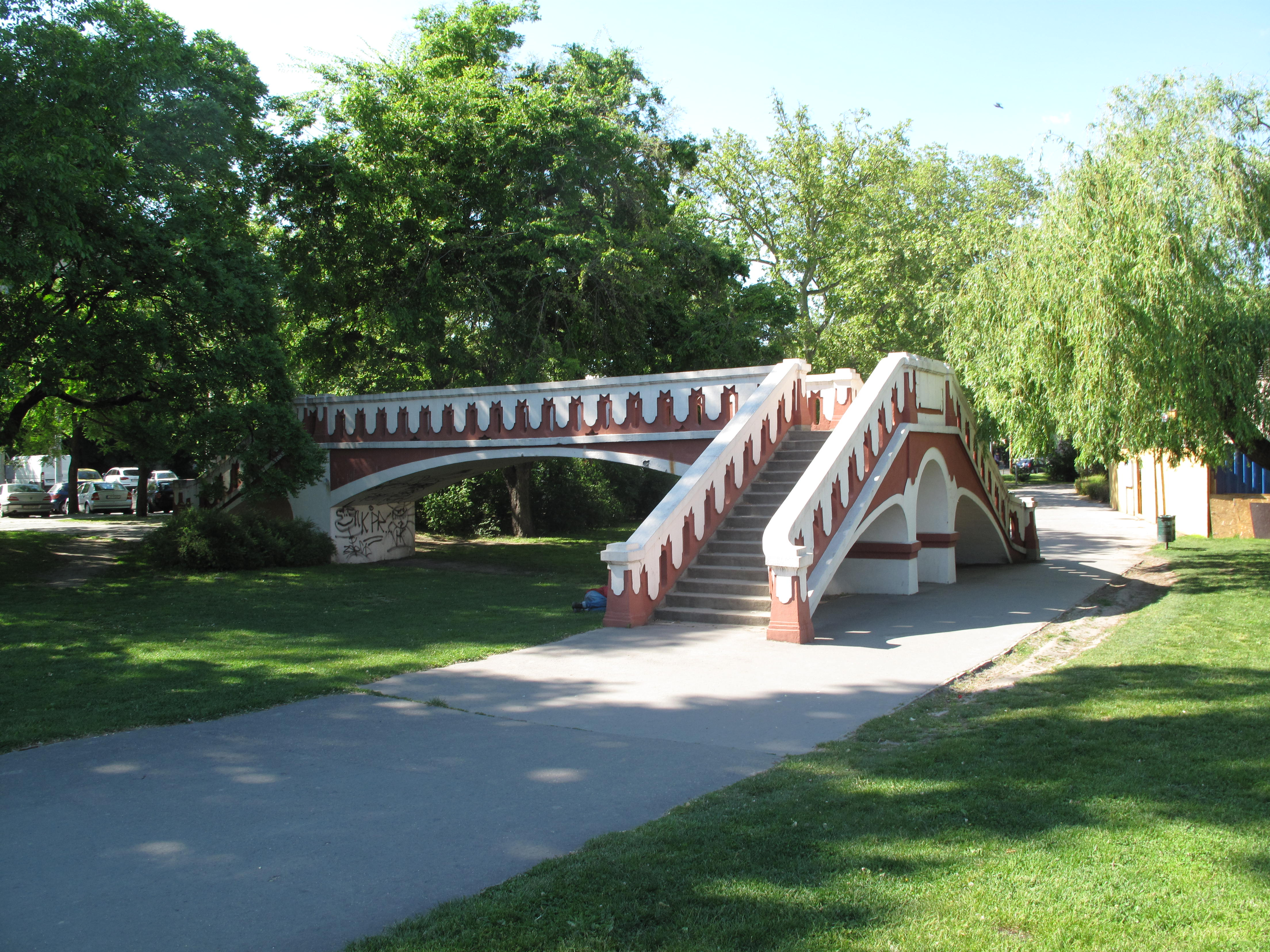 Bridge in Budapest's Városliget (City Park) - formerly crossed the above-ground portion of Metro Line 1 as it passed between Hősök tere and Széchenyi fürdő. It is one of the oldest concrete bridges in the world.